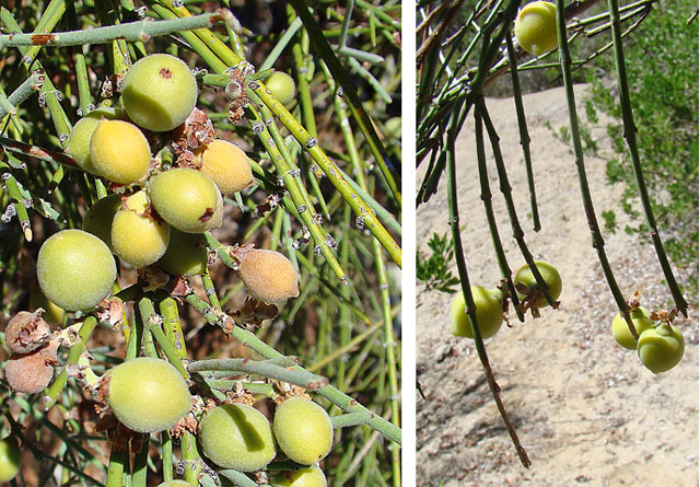 These have been given the name of Frutilla el Campo. In context at